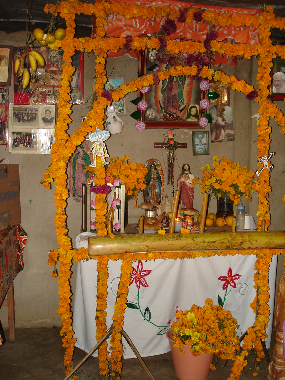 A traditional altar for the Dead Festivities. Food such as fruit and bread and beverages such as atole or a baby bottle with milk can be appreciated, along with cempasúchitl (the flower of the dead) and jagged paper (papel picado) ornaments, candles and images of Saints, Virgins and Crucifixes. Photos of beloved ones who have passed away are also put in the altar, beside images of skeletons and of Death itself, but always seen from a humorous point of view. The place is Acayuca, Hidalgo, located within the mountains of the Sierra Madre Oriental, in Mexico.